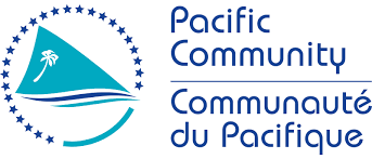 SPC Logo 2016